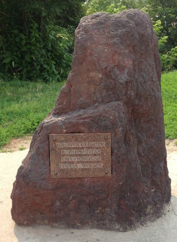 Rock at Tomsk History Museum Where City is Claimed to be Founded